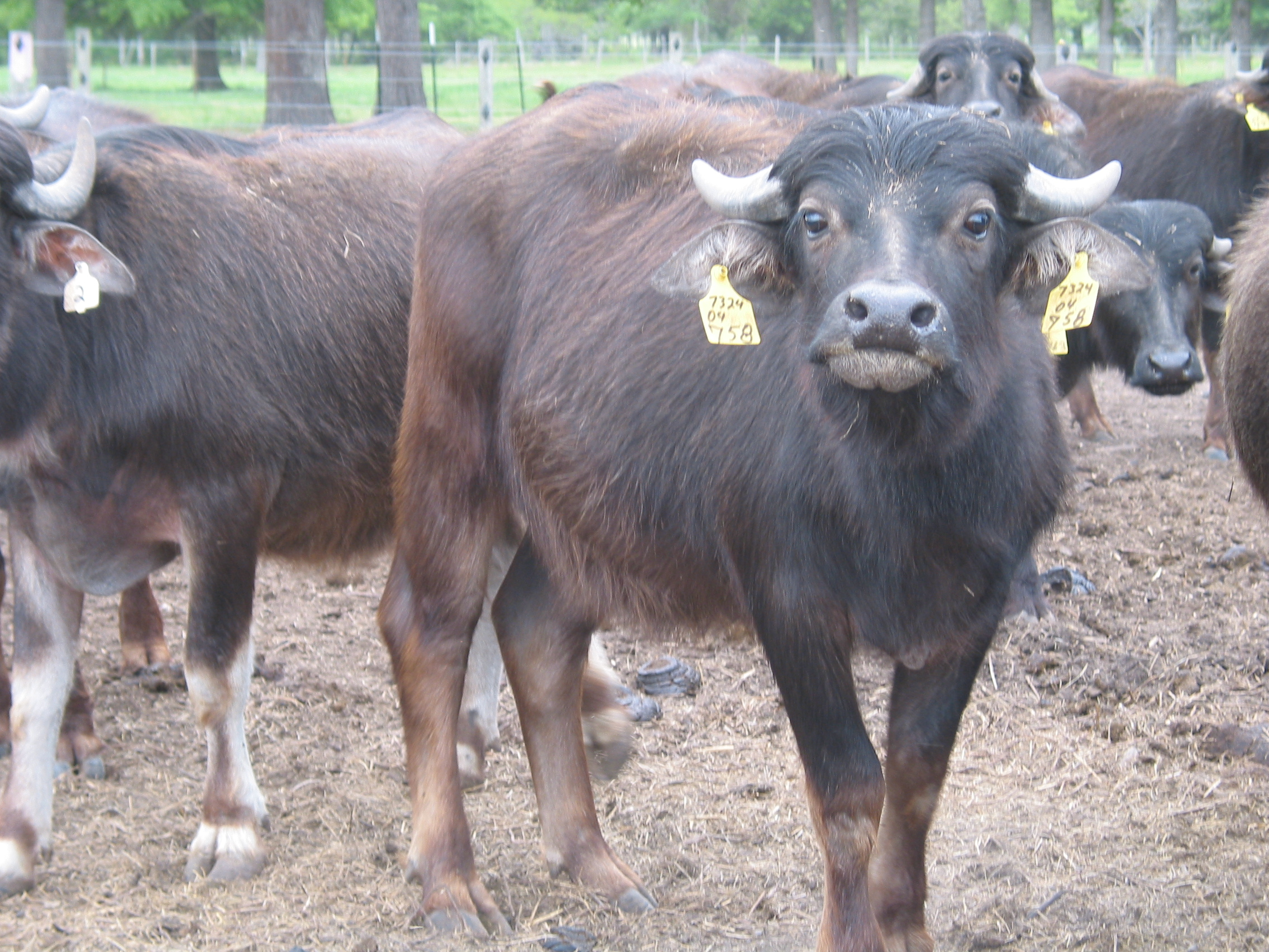 Young Water Buffalo - Author T Olson